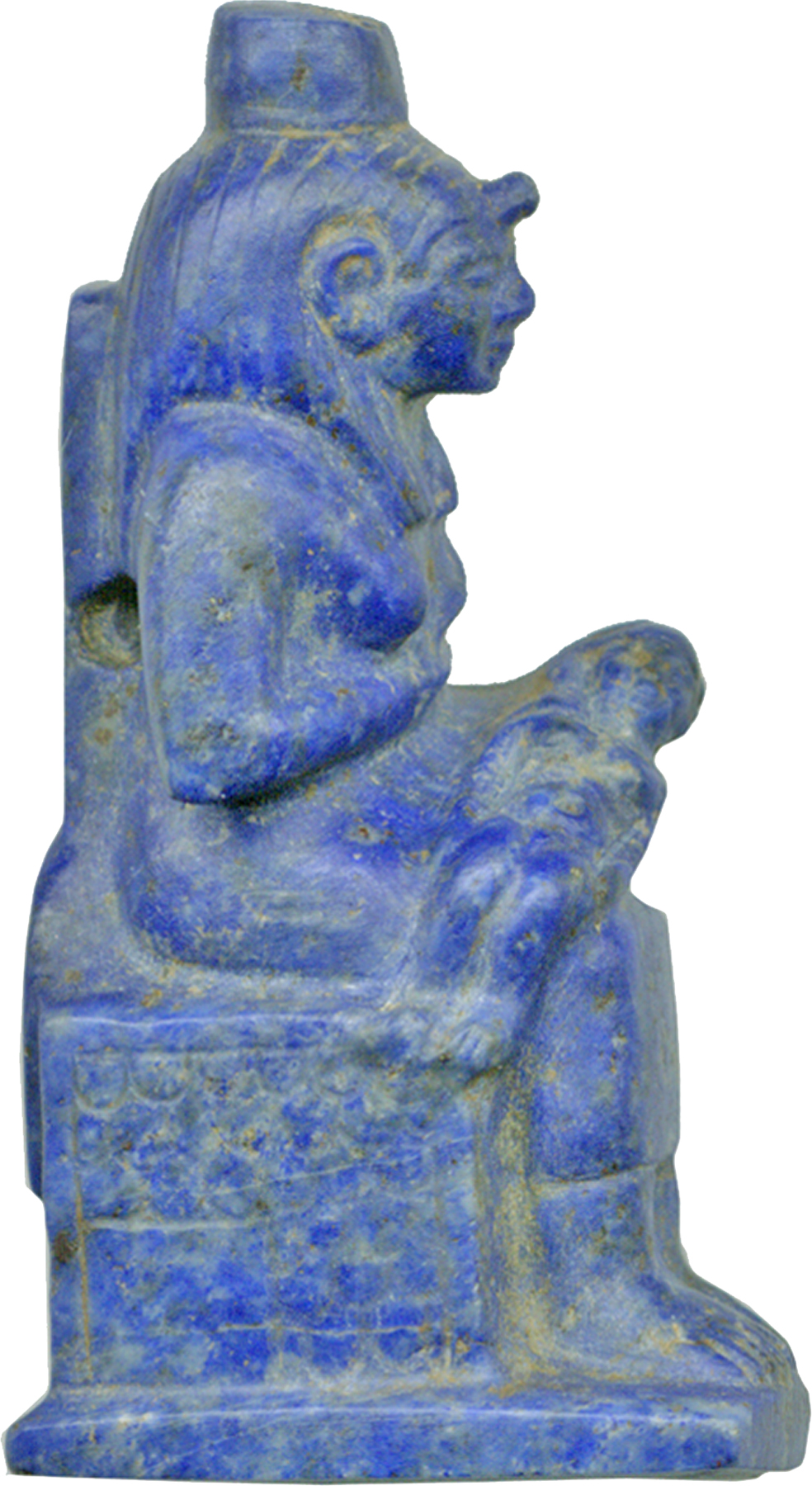 A lapis lazuli amulet representing the goddess Isis seated on a throne decorated with a scale pattern. She holds her left breast and raises the head of infant Horus on her lap. The broad face and squat proportions may indicate an early date. The back is perforated at shoulder level.